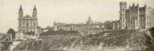 Wilno. Early 20th century